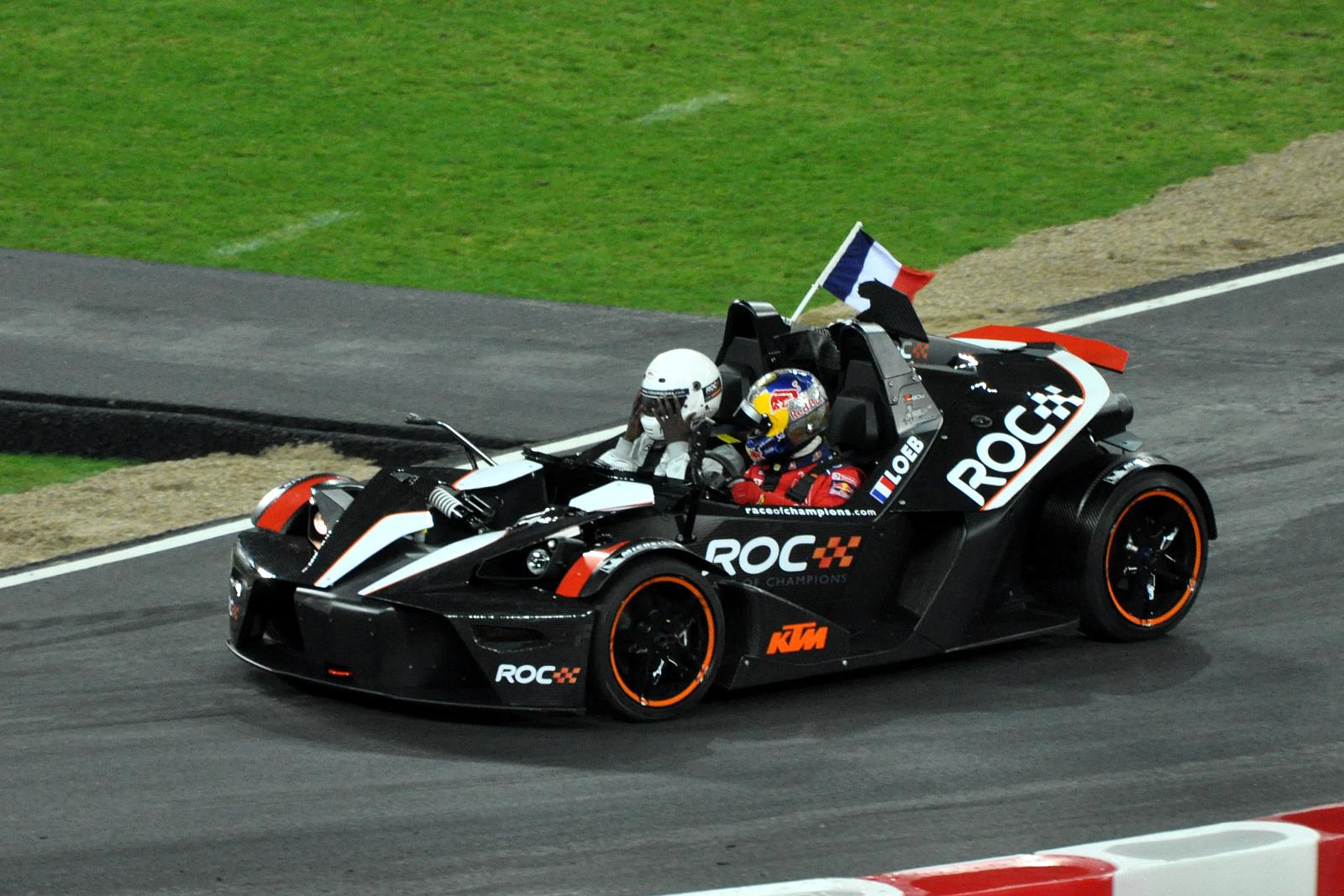 Loeb in a KTM X-Bow - ROC 2008